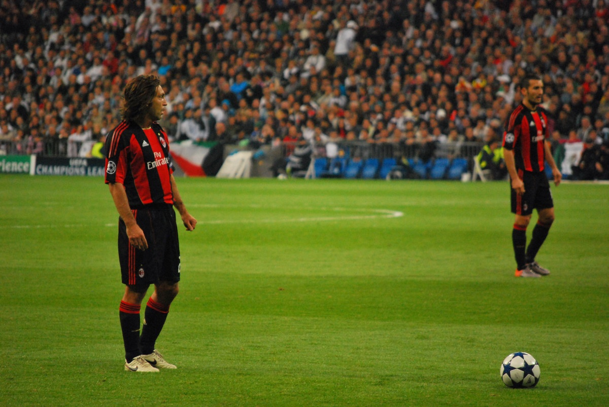 Free kick taken by Andrea Pirlo during Real Madrid CF-AC Milan, 2010–11 UEFA Champions League